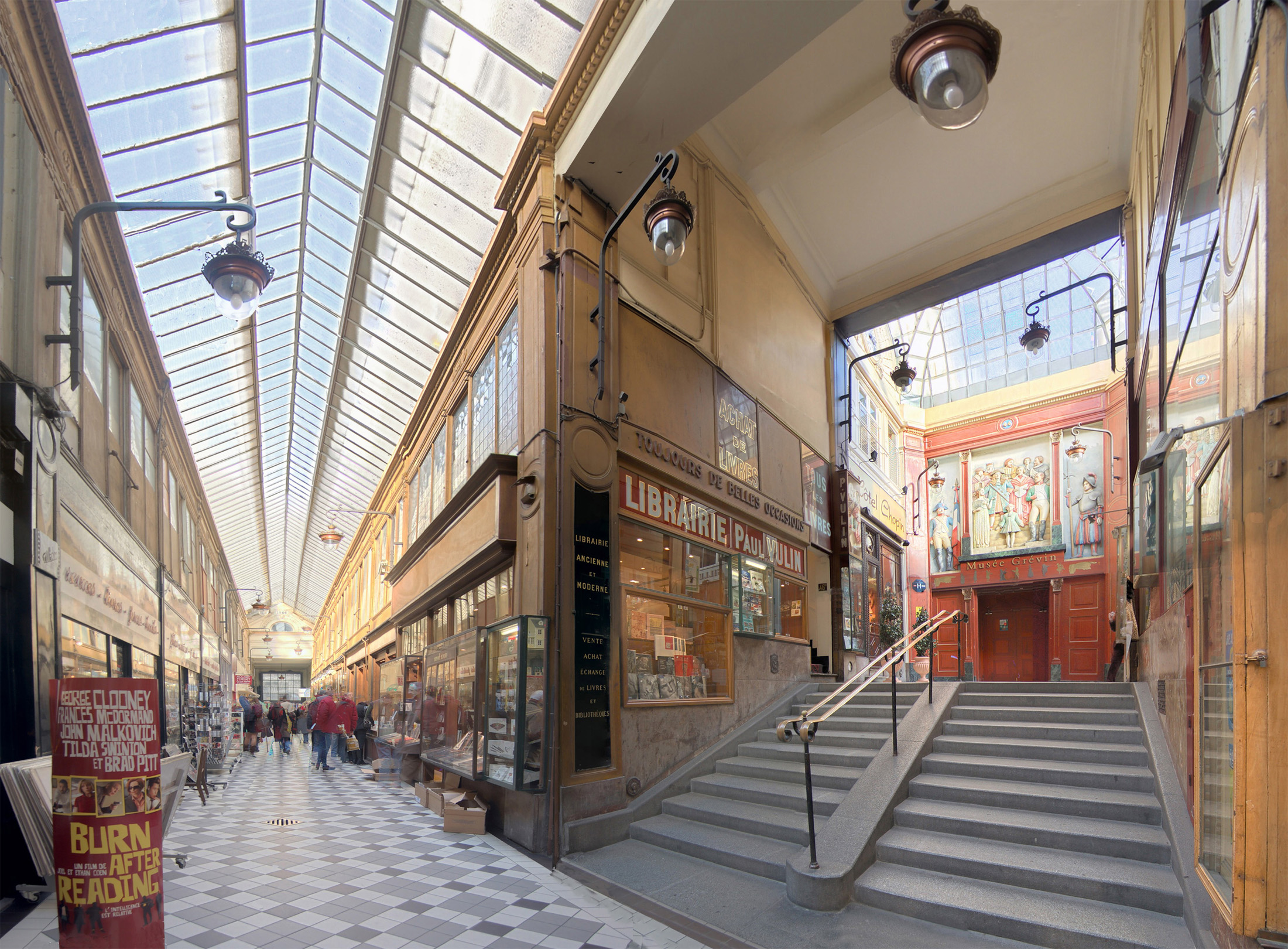 Passage Jouffroy, interior, view to the north .